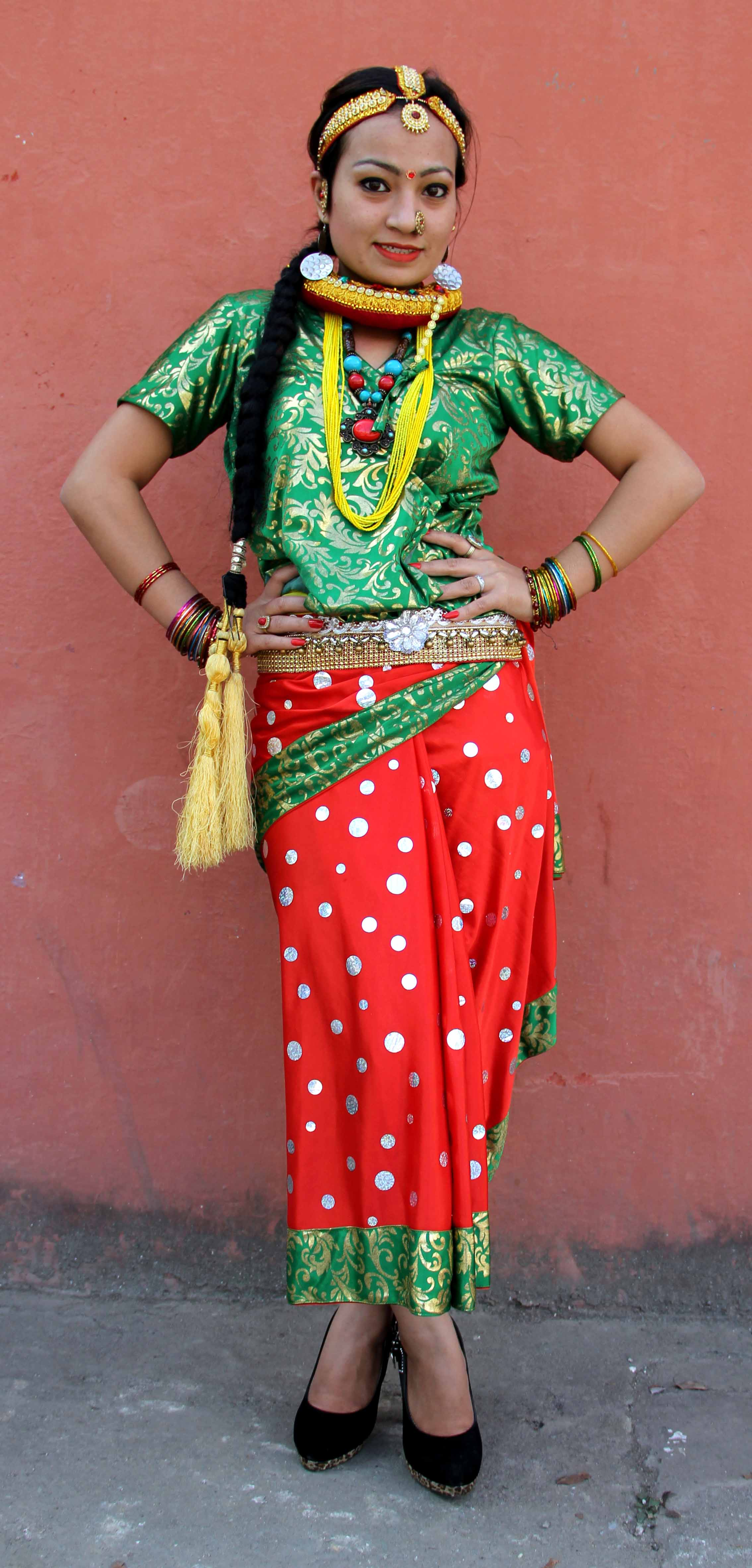 Gunnyu cholo